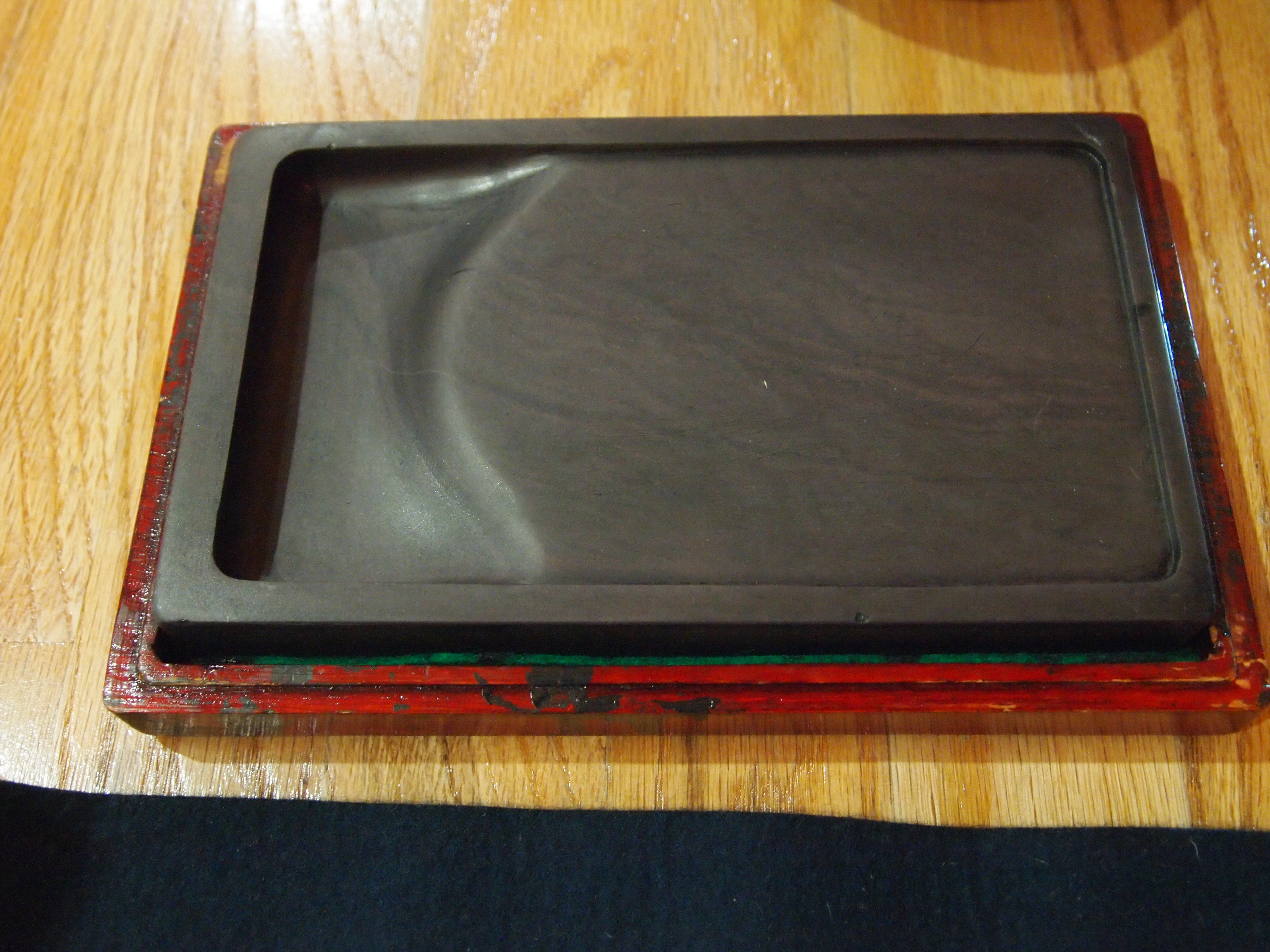 For grinding inksticks (mixed with water) to make ink.